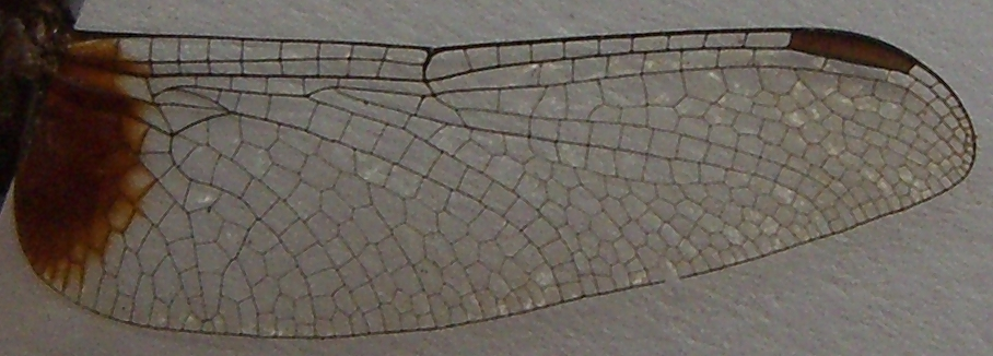 Description: Detail of the hindwing of Erythrodiplax fusca, (male)